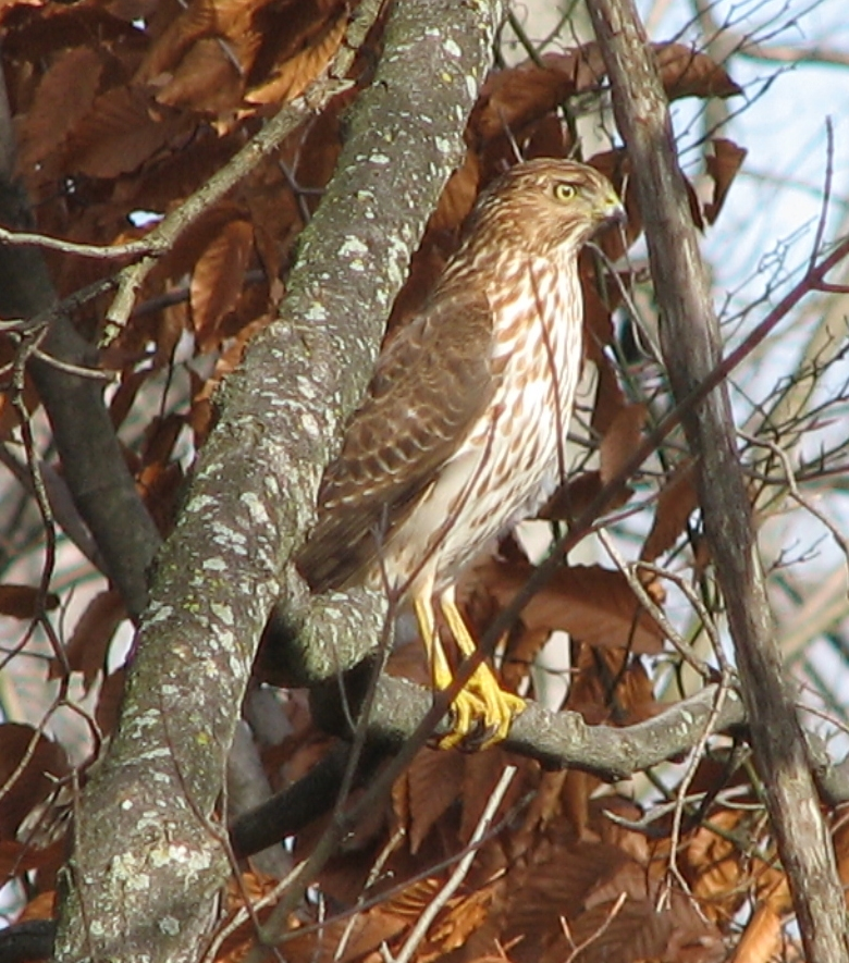 Identified as a juvenile Cooper's Hawk Accipiter cooperii